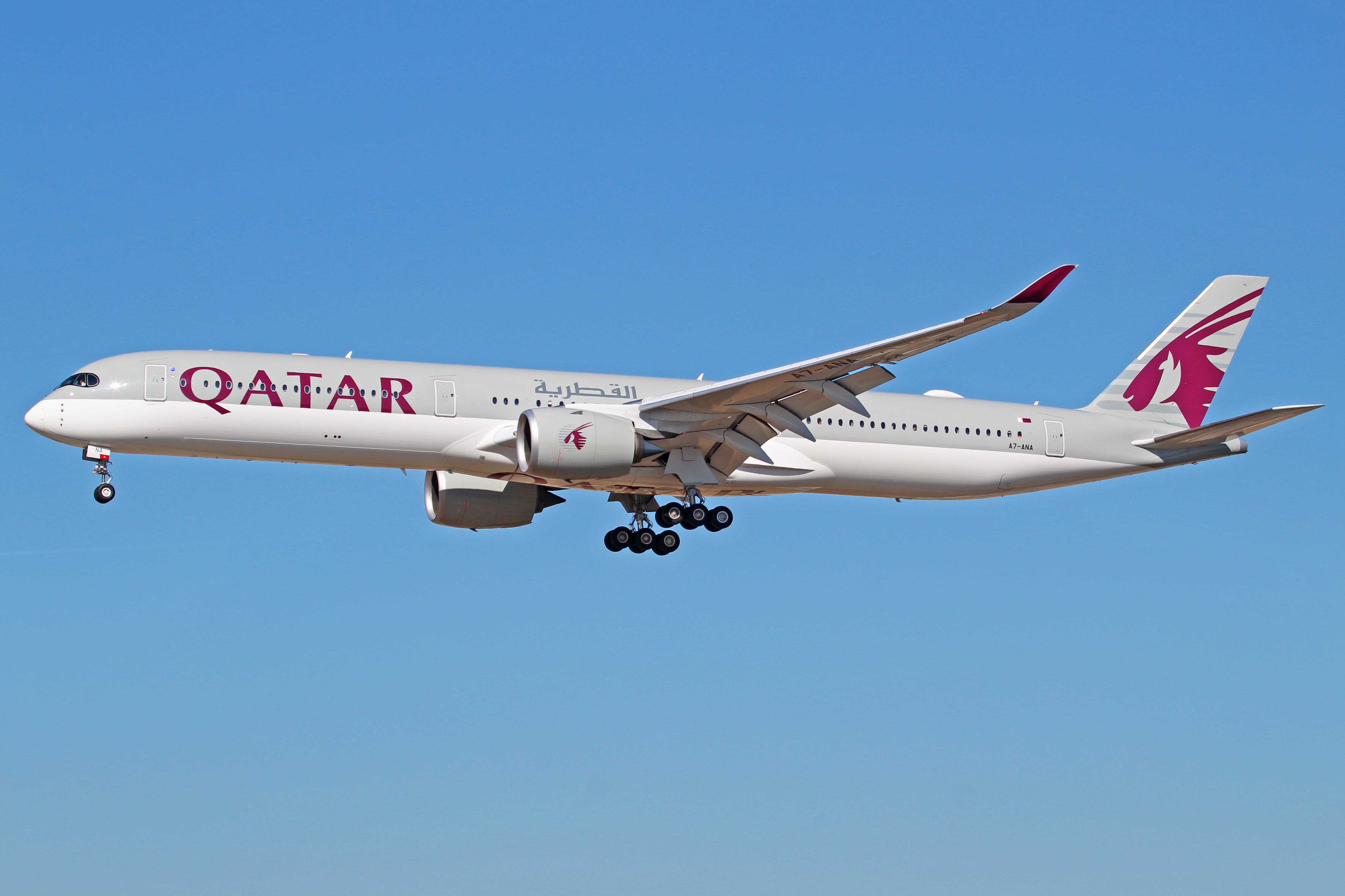 First delivered Airbus A350-1000